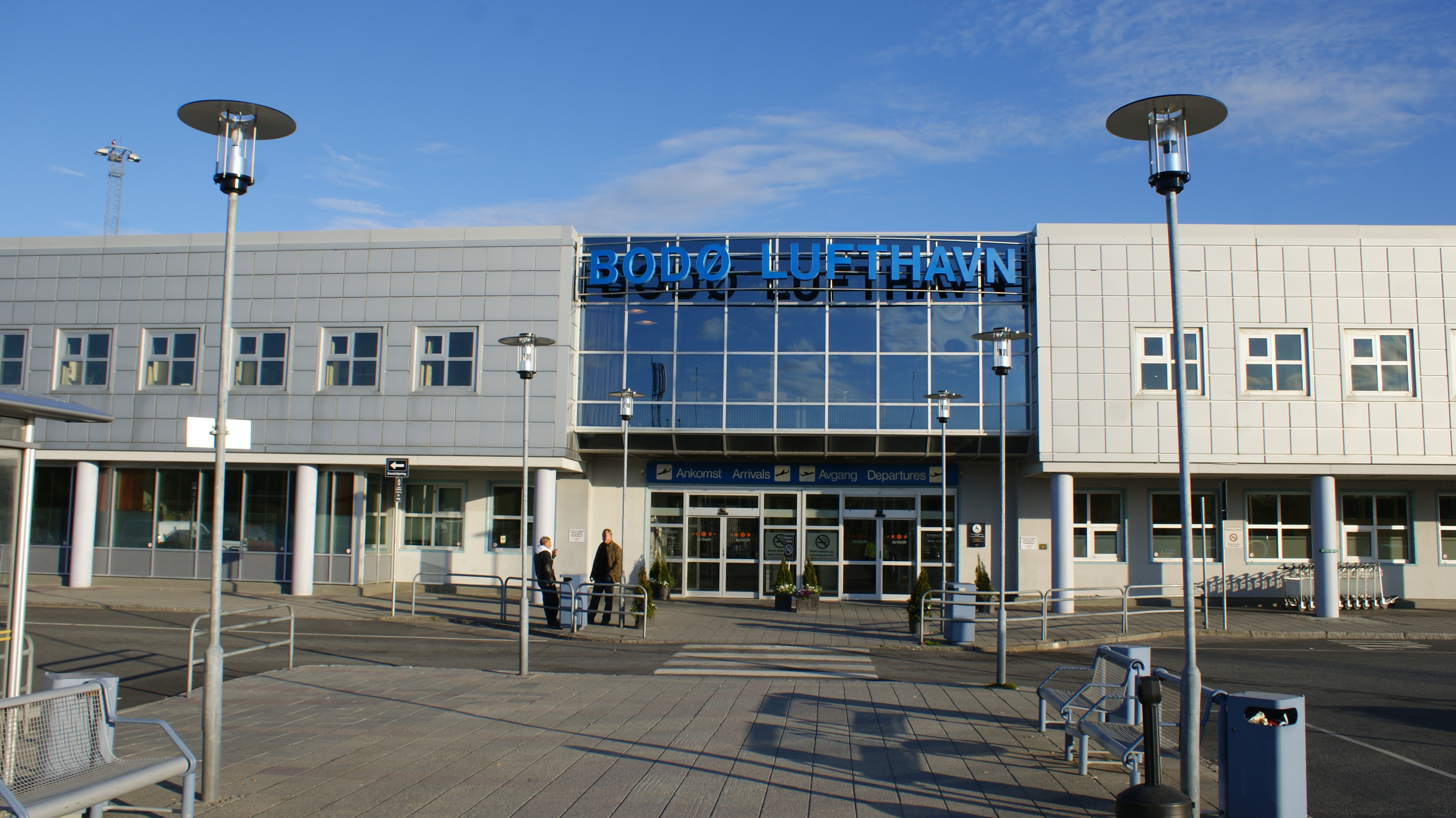 Bodø Airport, Salten, Nordland, Norway. Terminal exterior.